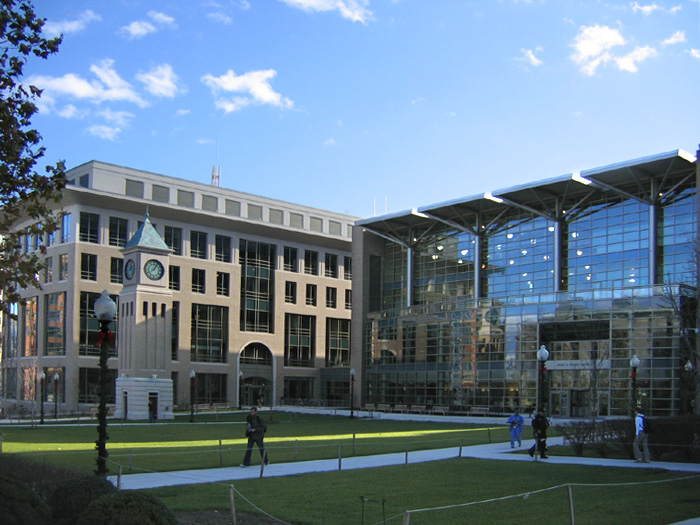 The Hotung International Law Building and fitness center at Georgetown University Law Center, looking across the south quad.